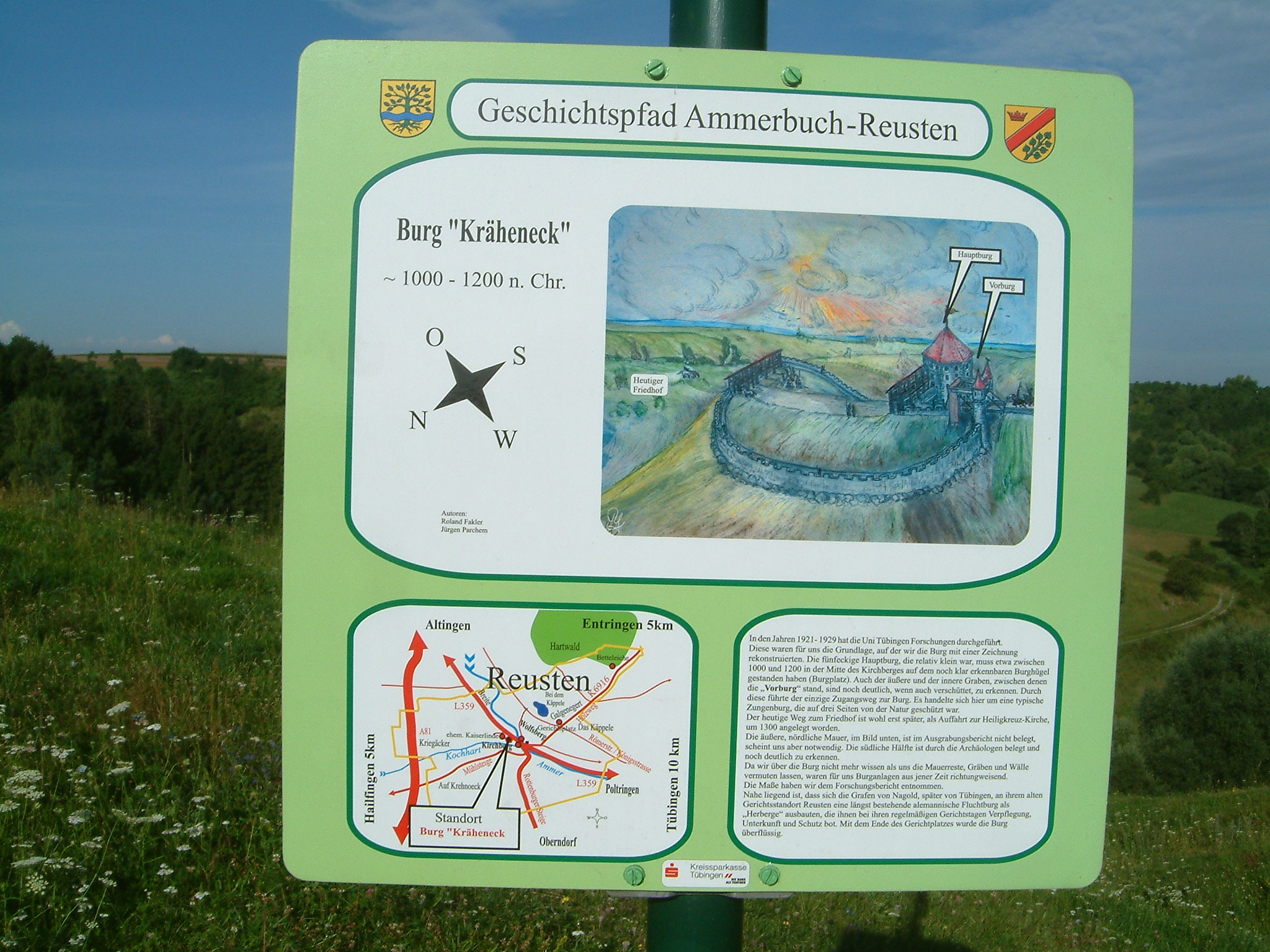 This is a sign about the castle of Kräheneck (crows corner) of the historical path in Ammerbuch-Reusten.